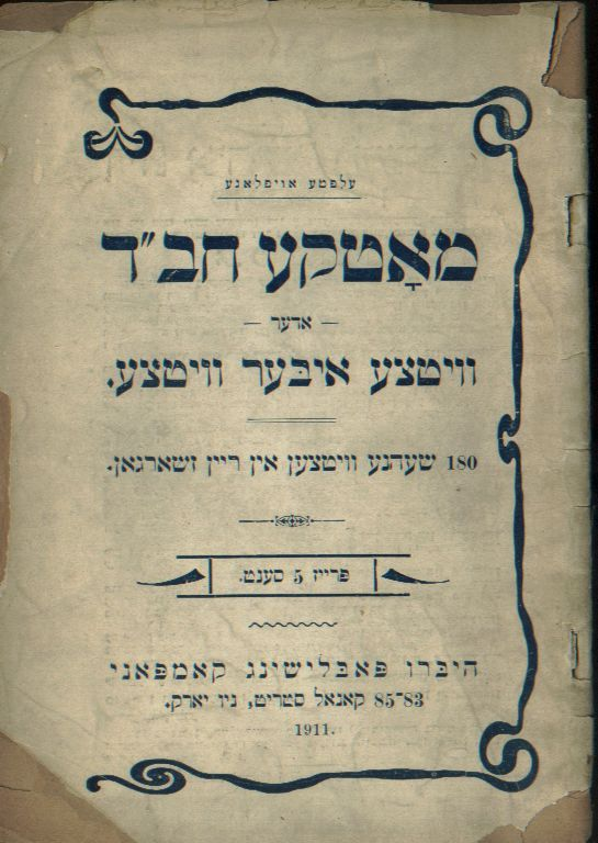 book of motke chabas